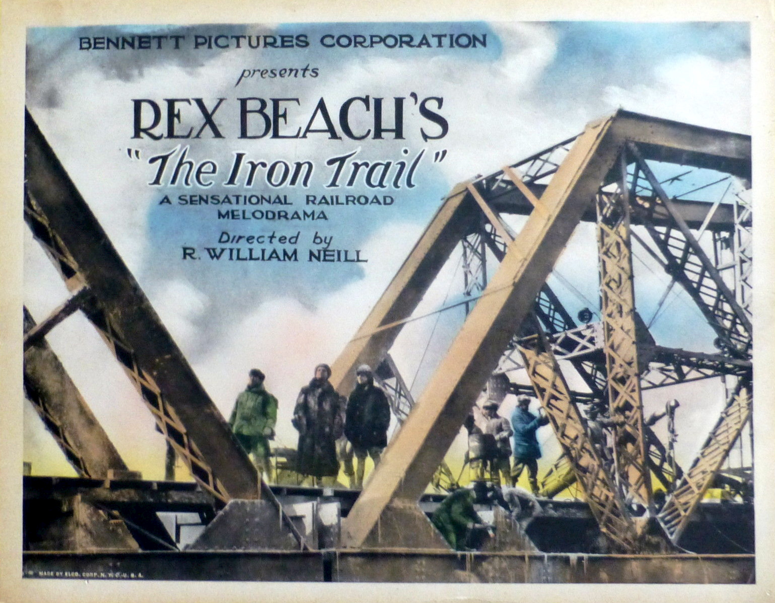 Lobby card for the American drama film The Iron Trail (1921).